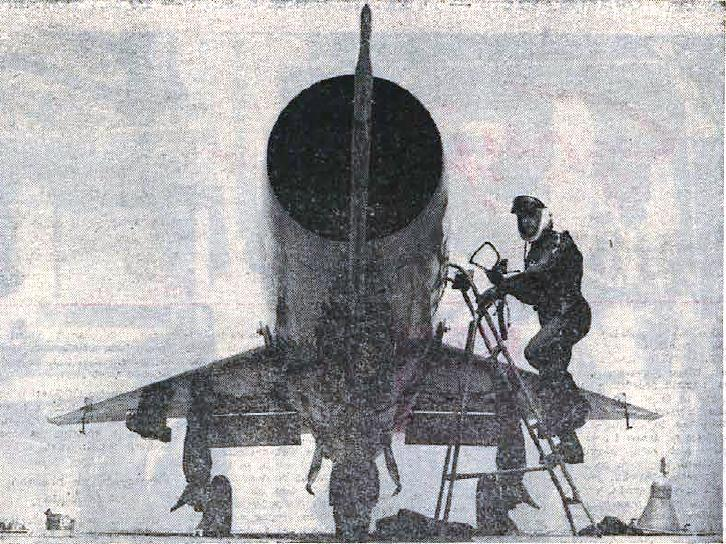 Bojan Savnik, (1930-1976), Slovene fighter pilot and general. Savnik with his Mig-21